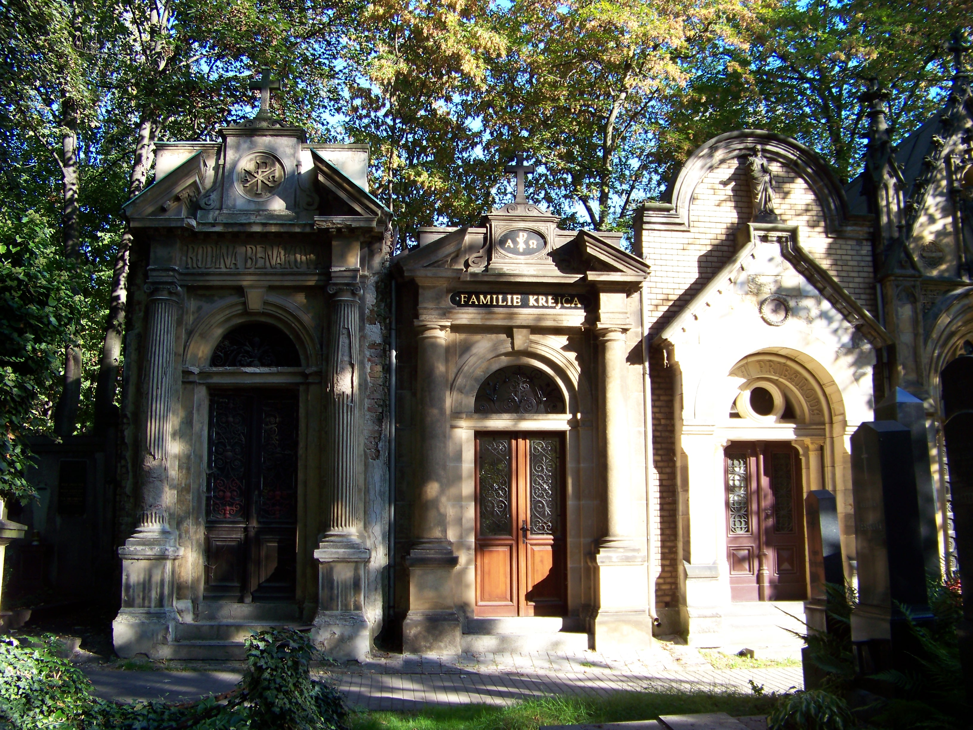 Prague-Smíchov, the Czech Republic. Malvazinky Cemetery, tombs.